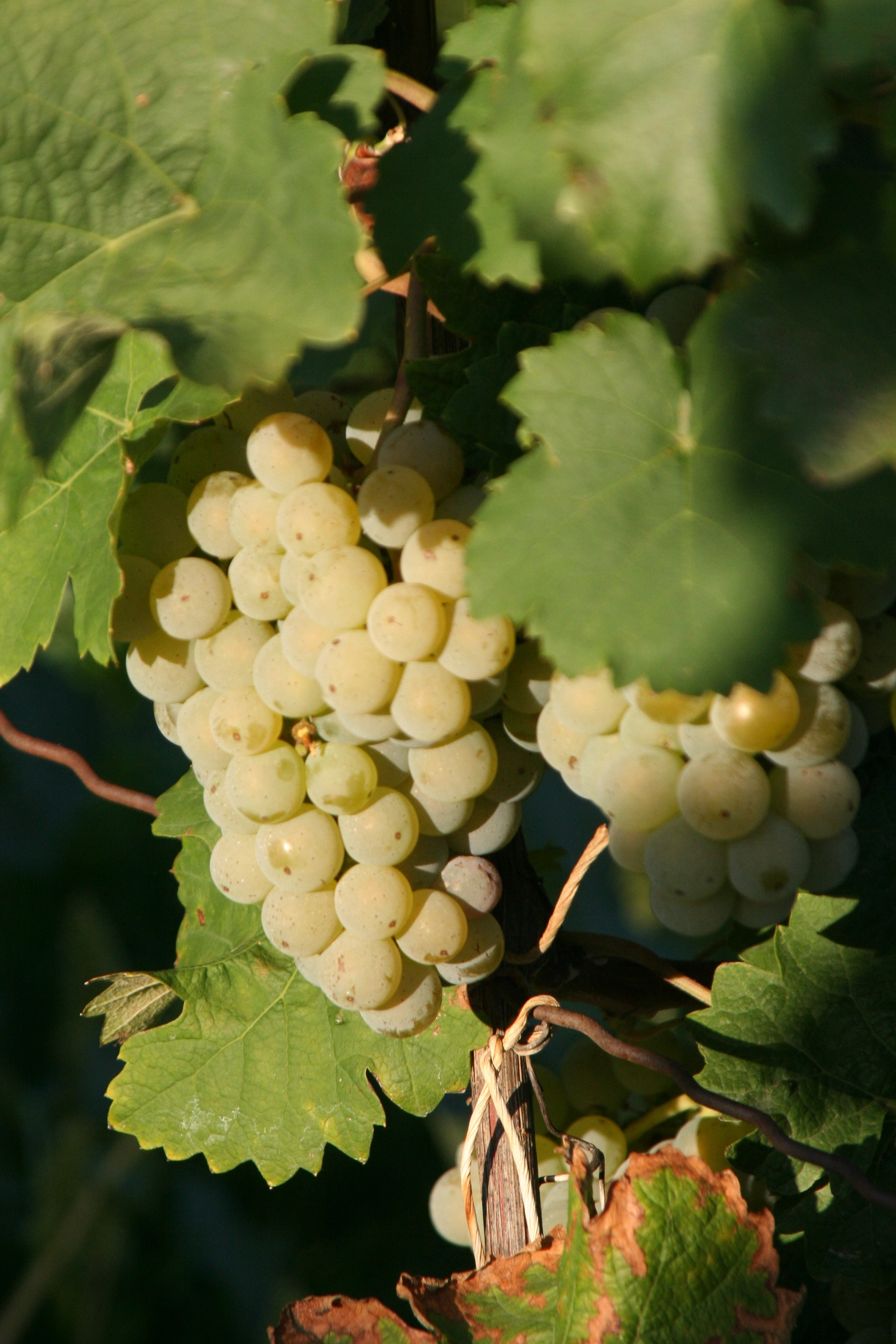 Grapes and leaves of the grape variety Kerner, photographed at the viticulture trail on the Schemelsberg hill in Weinsberg